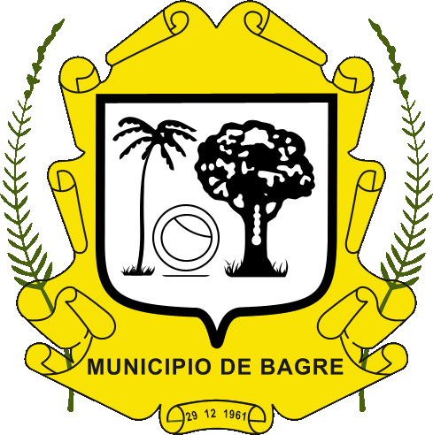 Seal of Municipality of Bagre